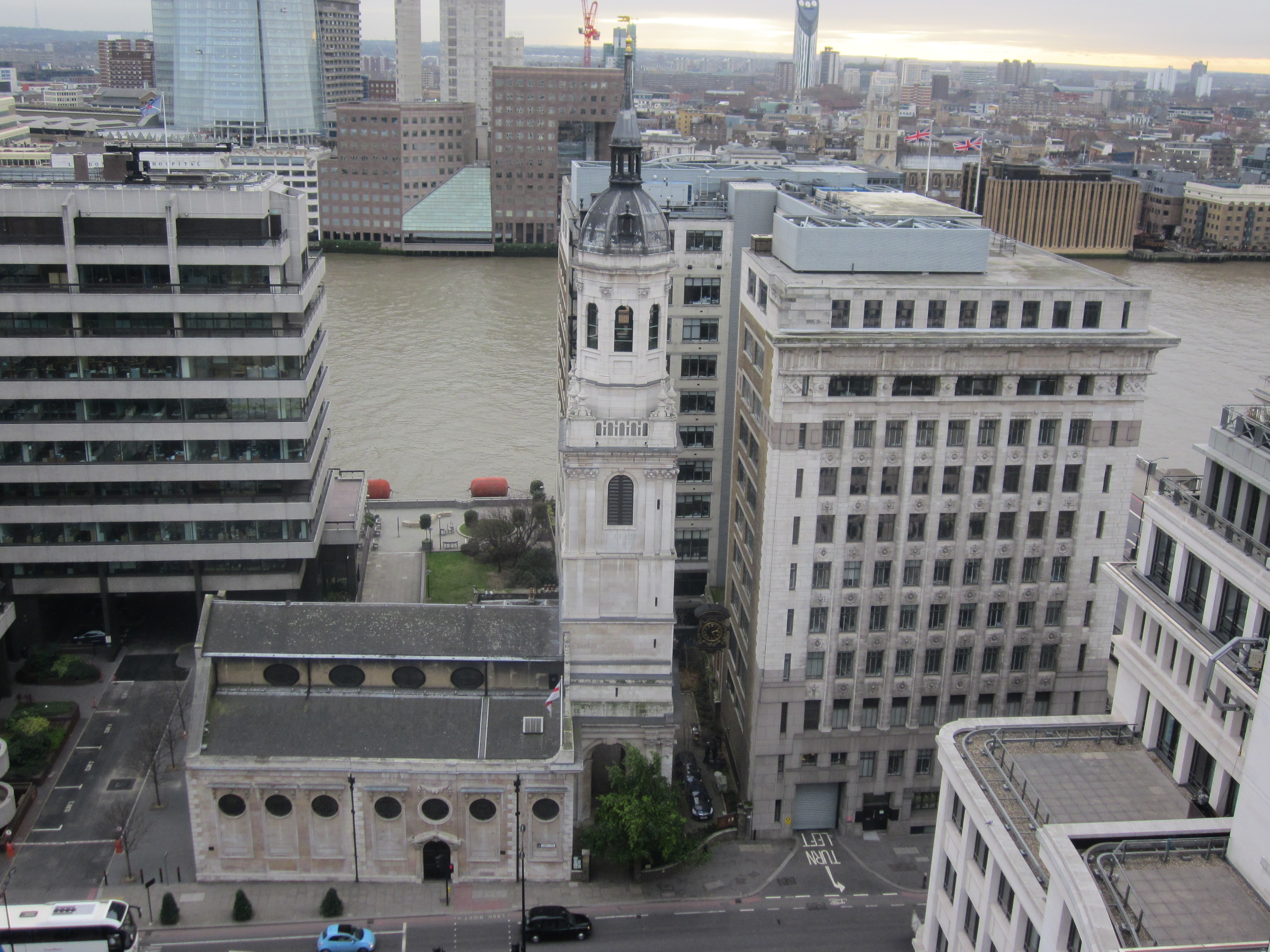 St Magnus the Martyr Church with Adelaide House to its right and behind it and St Magnus House to the left. Across the Thames can be seen the base of the Shard, 1 London Bridge, and the Strata building in Southwark.